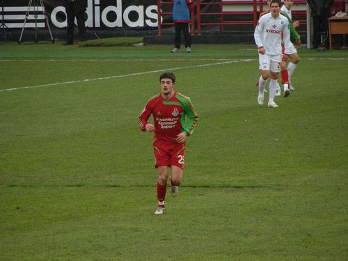 Răzvan Cociş. 2007 Russian cup semifinal (FC Lokomotiv Moscow v.s. FC Spartak Moscow)